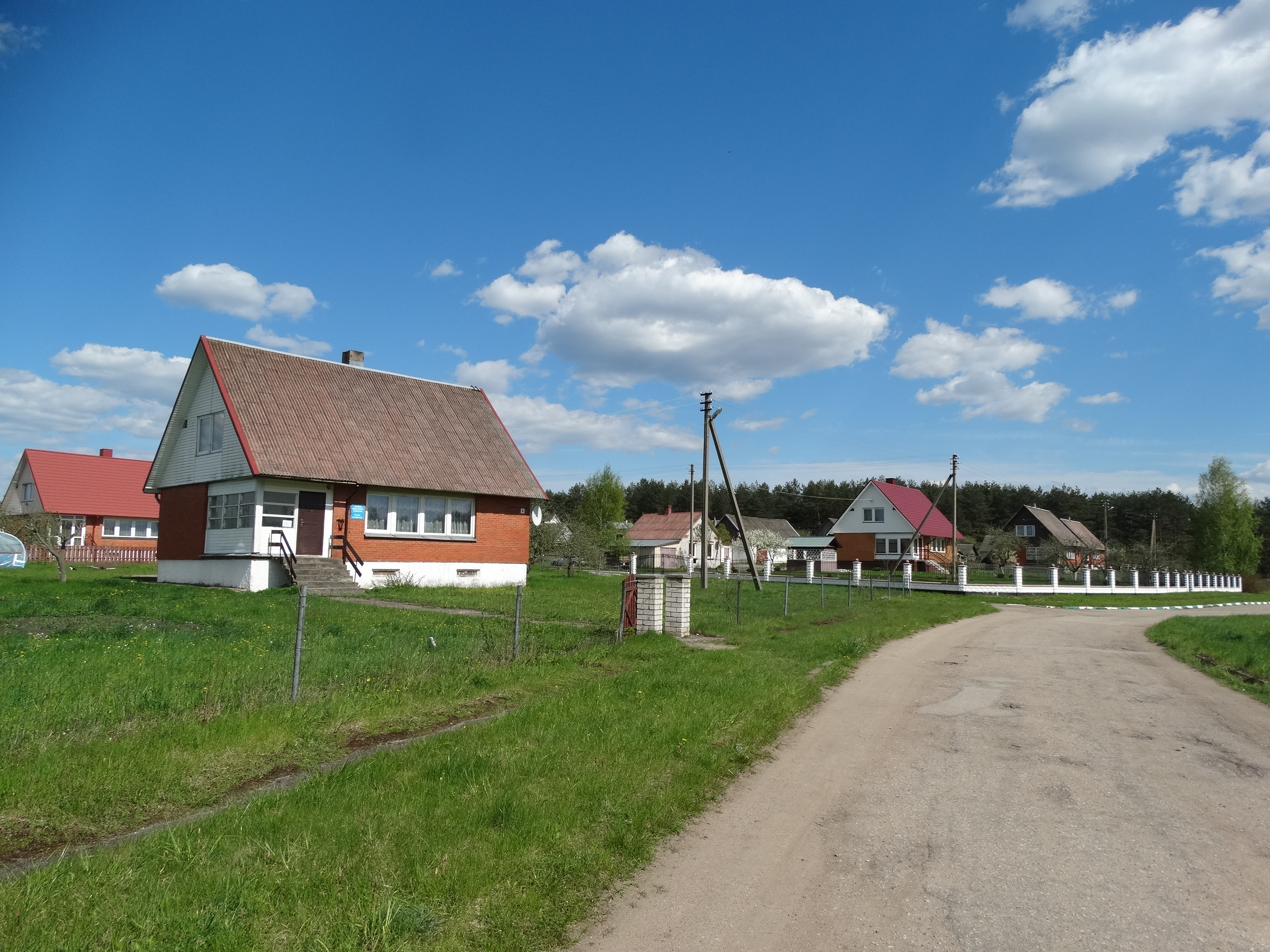 Tetėnai, Šalčininkai District, Lithuania